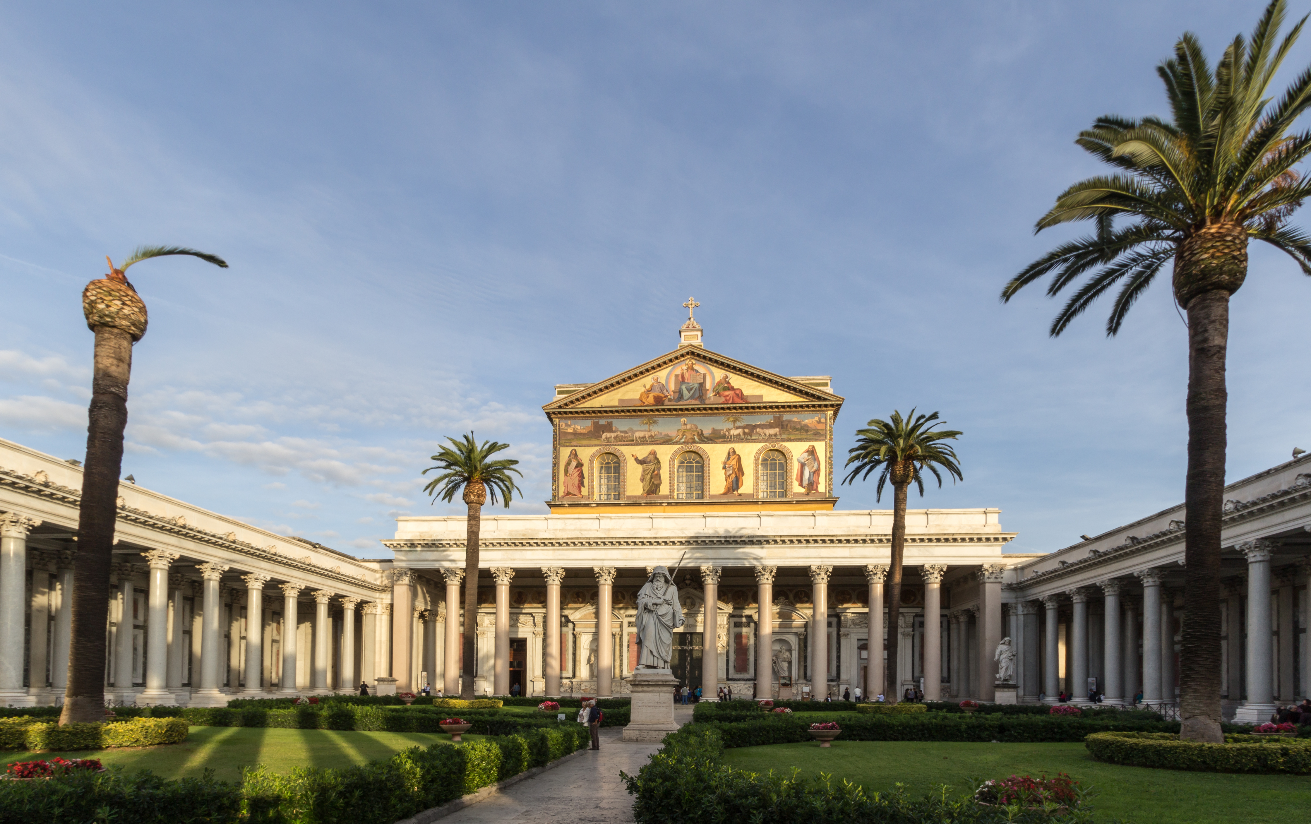 Basilica of Saint Paul Outside the Walls, Rome, Italy